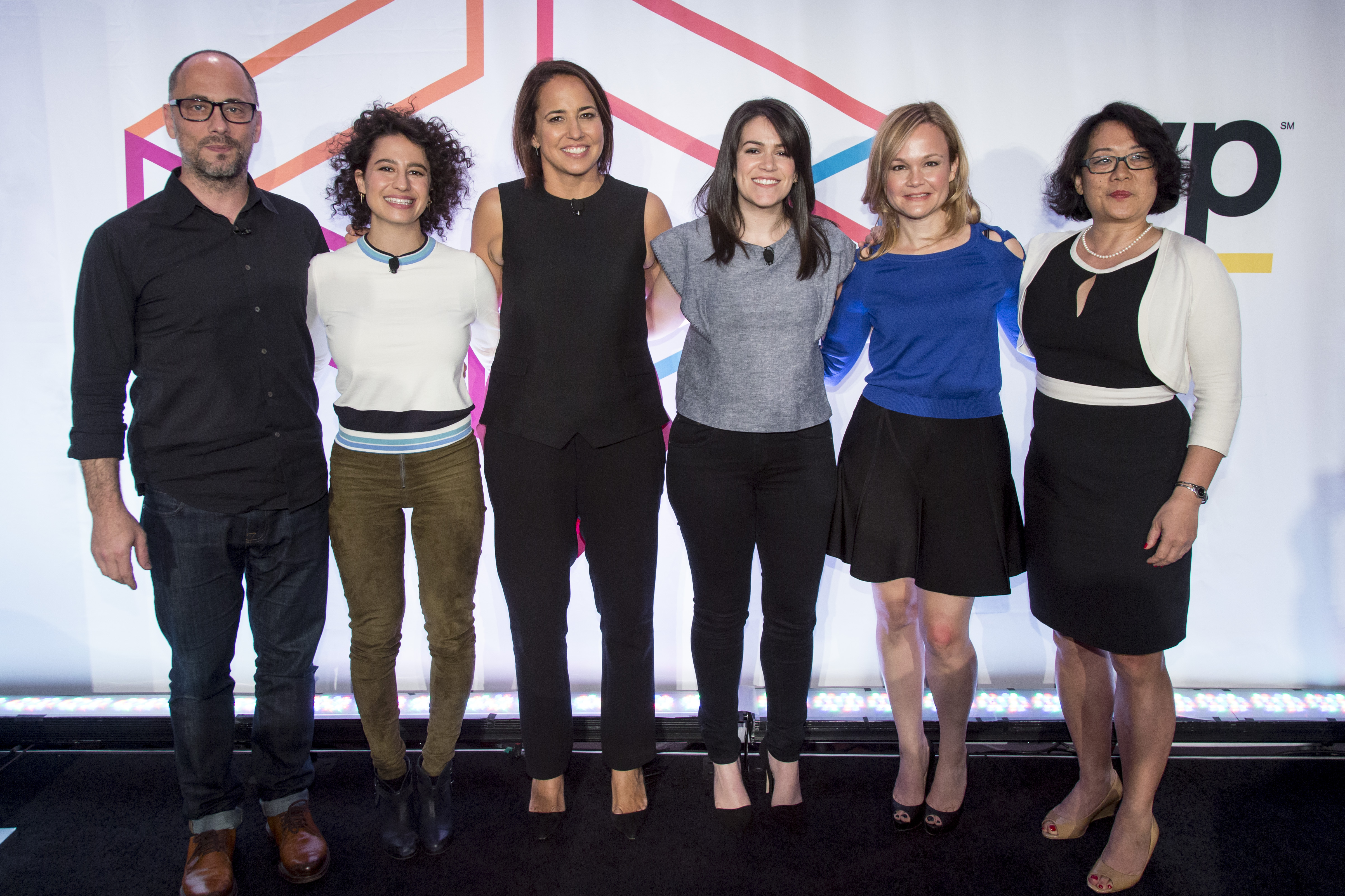 Marie Claire Editor in Chief Anne Fulenwider interviews Broad City's Abbi Jacobson and Ilana Glazer on the YP Stage on Day 1 of Internet Week New York May 18, 2015. INSIDER IMAGES/Gary He